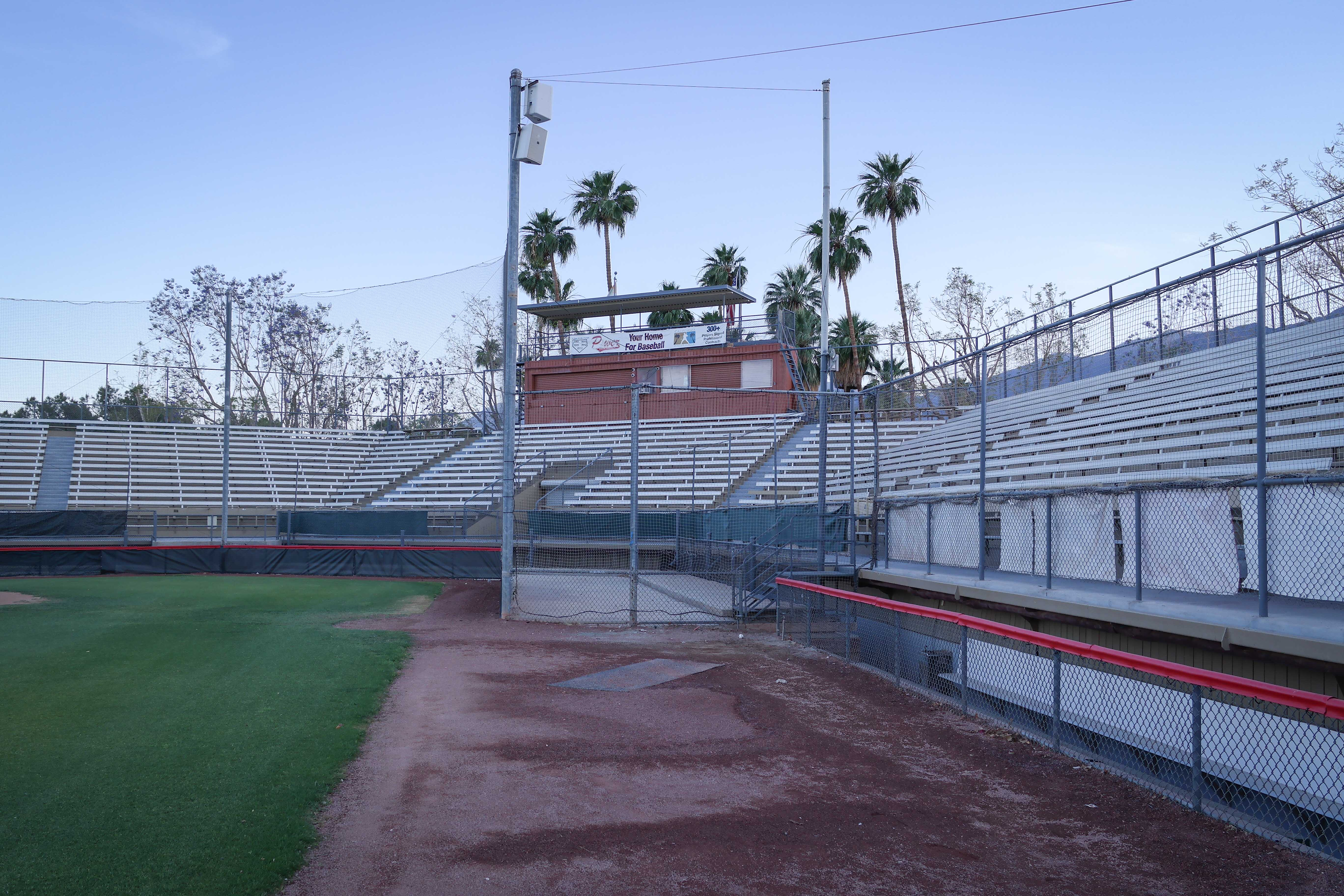 A view of Palm Springs Stadium